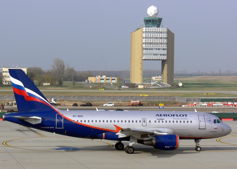 Aeroflot - Russian Airlines Airbus A319 at Budapest Ferihegy International Airport (BUD).